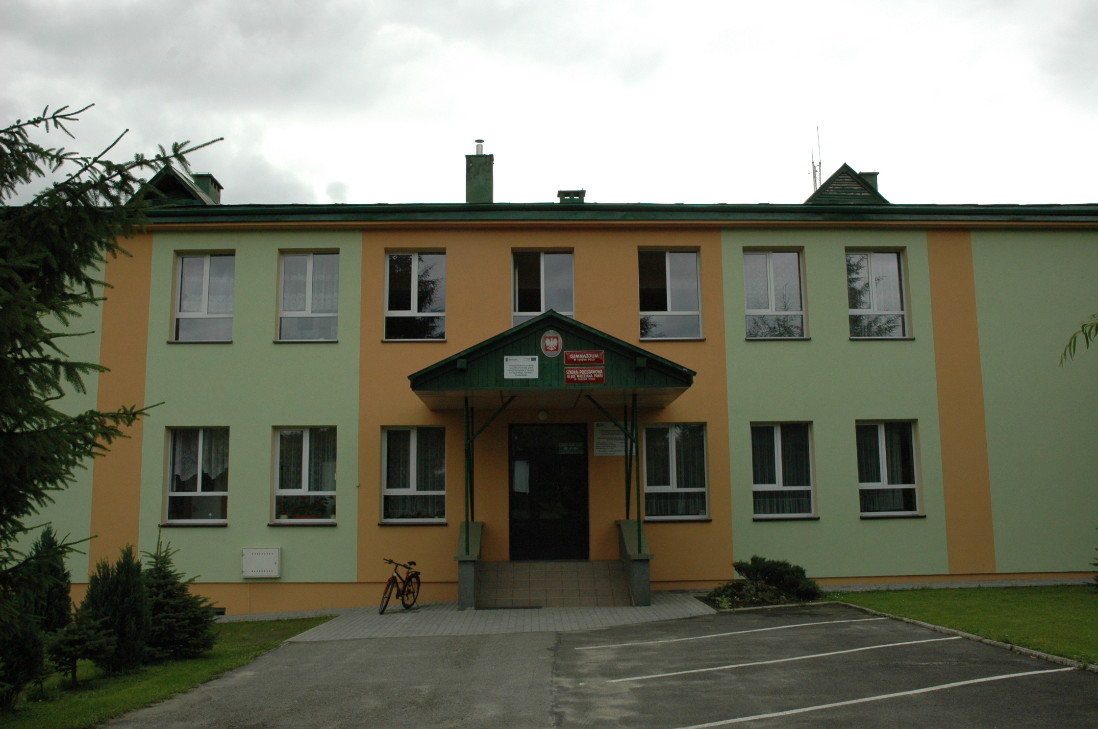 Elementary School and Gymnasium in Turze Pole